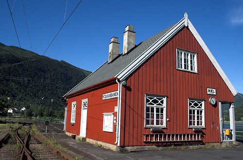 Mæl railway station, Rjukanbanen (shut down). Municipality of Tinn in the county of Telemark, Norway